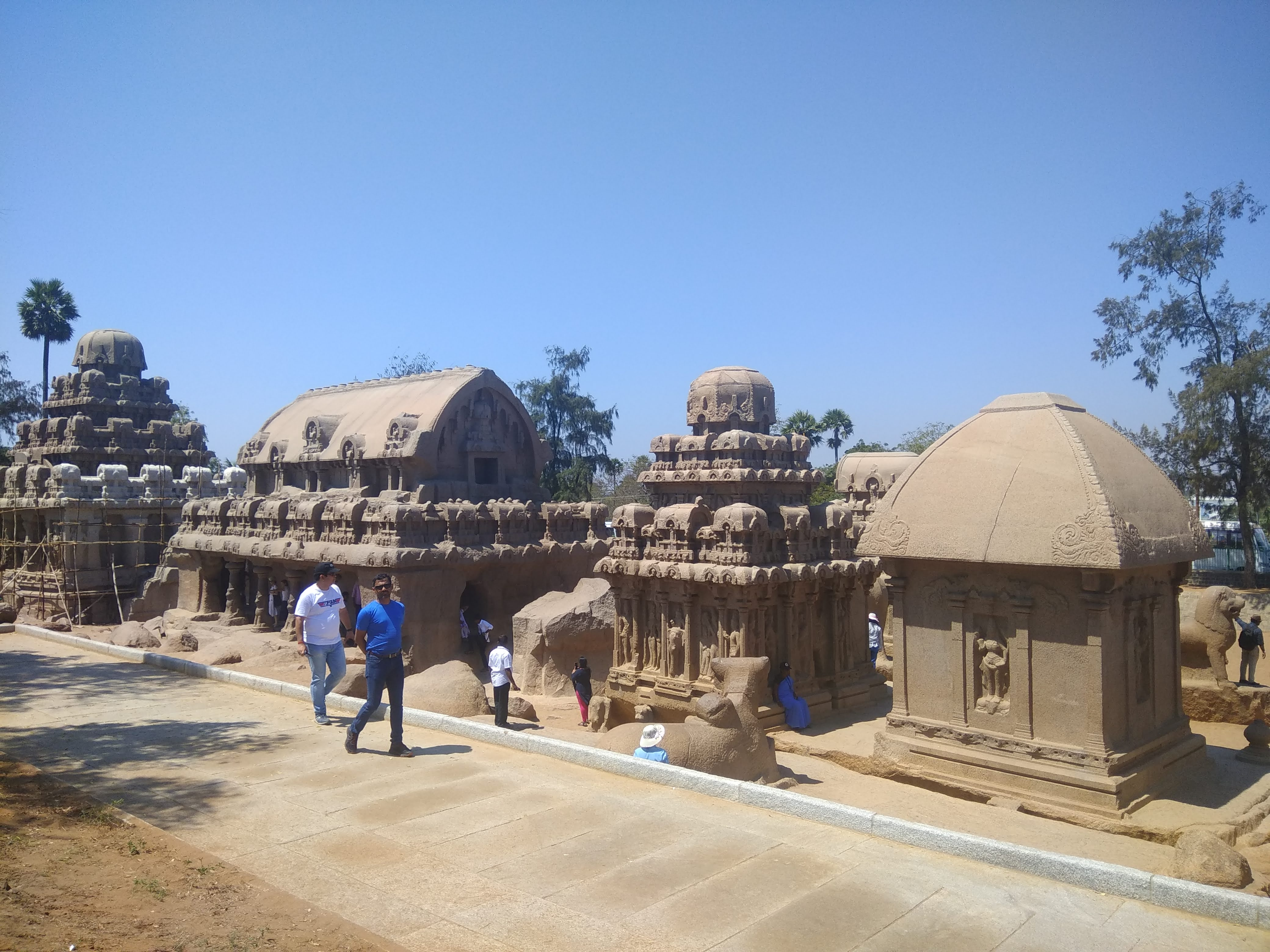 Panch Rathas are five monolithic temple structures built by the Pallavas in early 7th century AD. Situated in a common complex to west of the Shore temple in Mahabalipuram. They are named after the Pandavas Yudhisthira, Arjuna, Bhima, Nakul, Sahadeva and their wife Draupadi. The construction of the Rathas is believed to have been started by King Mahendravarman I of the Pallava dynasty. It was continued by his son Narasimhavarman I in early 7th century AD. The temple were however left incomplete after the Narasimhavarman I’s death. Based on the amazing ornamentation and sculptures however, it can be safely assumed that they were supposed to be temples dedicated to Lord Shiva, Vishnu, Indra and Durga.